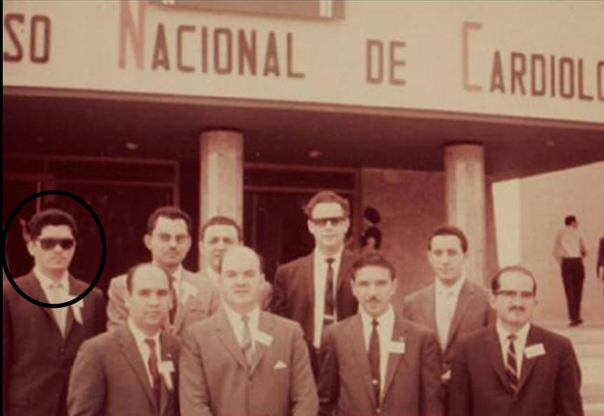 Personal Picture of Dr. Fernando Bermudez Arias and his Family